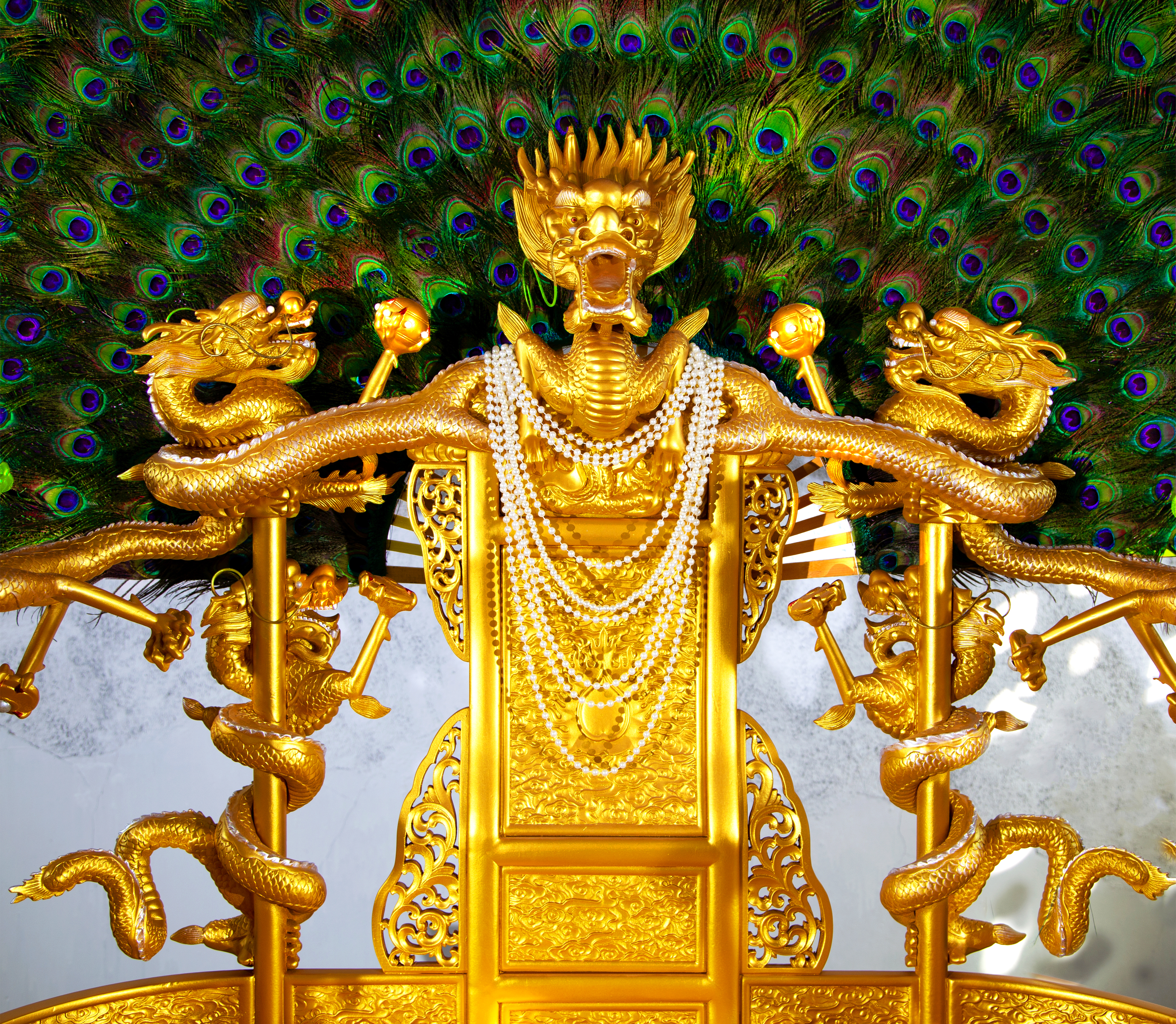 You are the center of your world, Pearl Dragon Throne. Work by Stevens Vaughn, Bienal de Curitiba 2018